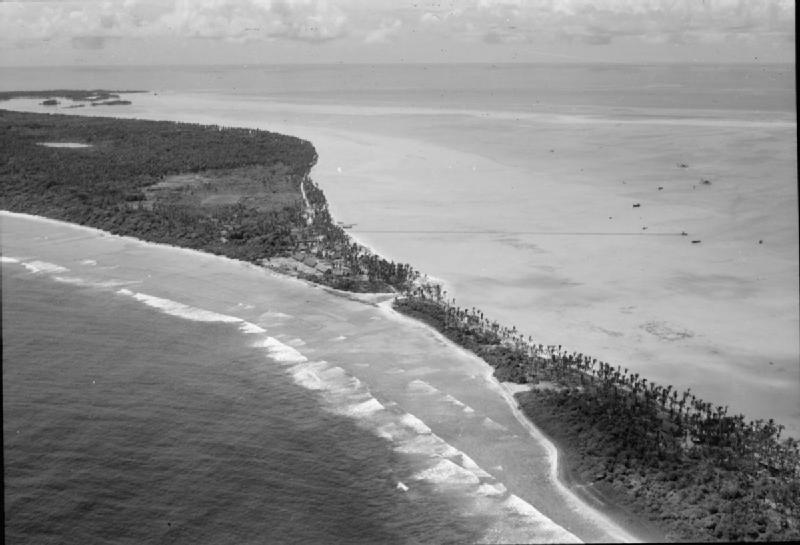 Royal Air Force Operations in the Far East, 1941-1945 An aerial view of the RAF camp on the coral reef at Addu Atoll, Maldive Islands, which was established in 1944 as a base for flying boats operating in the Indian Ocean. Note the one mile-long pipeline jetty, built to take oil to the marine tender which refuels the Short Sunderlands of No. 230 Squadron RAF, moored out in the lagoon at far right.